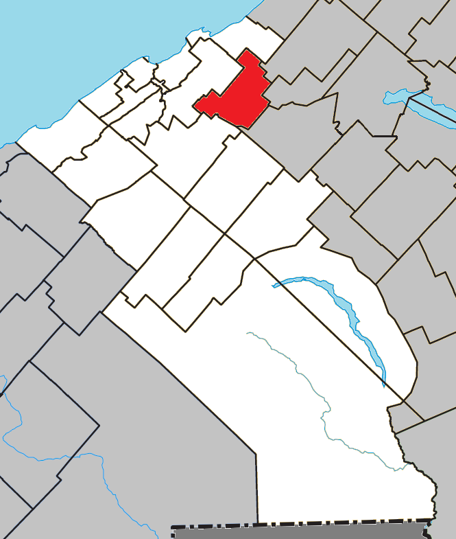 Location of Padoue, Quebec within La Mitis Regional County Municipality.